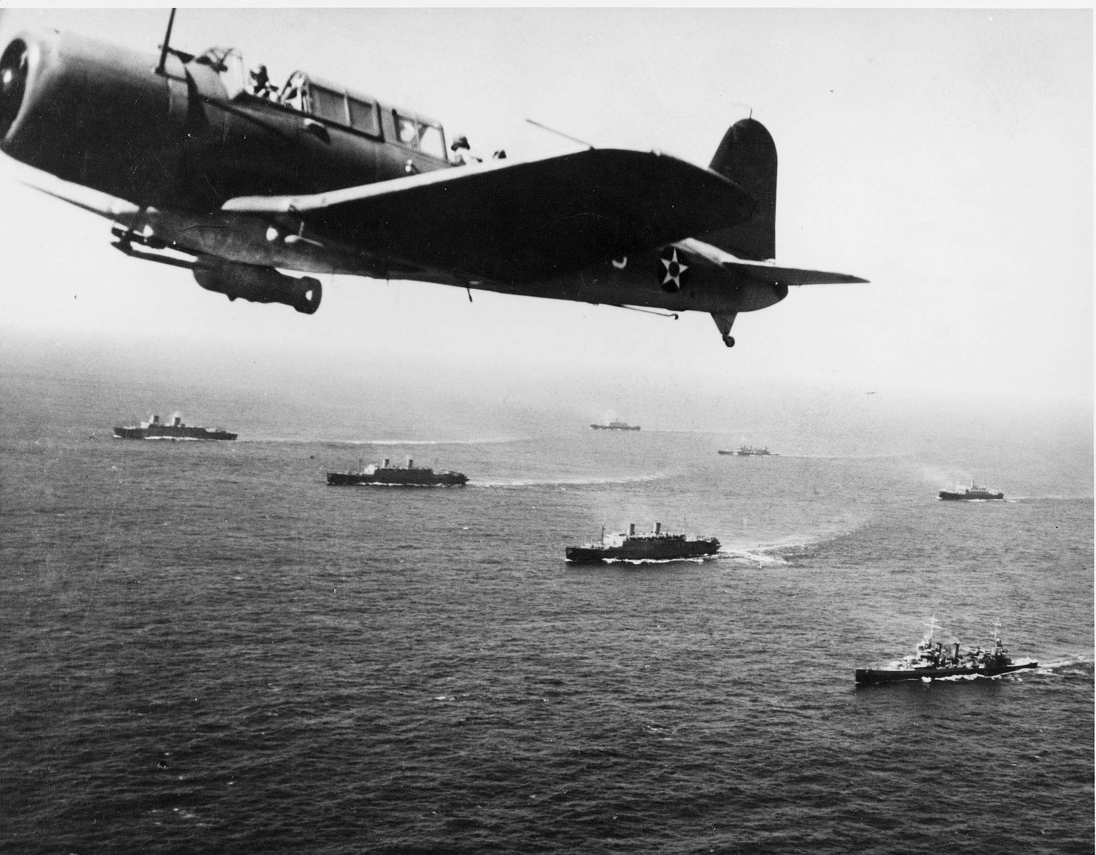 Original caption: "Convoy WS-12: A Vought SB2U Vindicator scout bomber from USS Ranger (CV-4) flies anti-submarine patrol over the convoy, while it was en route to Cape Town, South Africa, 27 November 1941. The convoy appears to be making a formation turn from column to line abreast. Two-stack transports in the first row are USS West Point (AP-23) -- left --; USS Mount Vernon (AP-22) and USS Wakefield (AP-21). Heavy cruisers, on the right side of the first row and middle of the second, are USS Vincennes (CA-44) and USS Quincy (CA-39). Single-stack transports in the second row are USS Leonard Wood (AP-25) and USS Joseph T. Dickman (AP-26)."